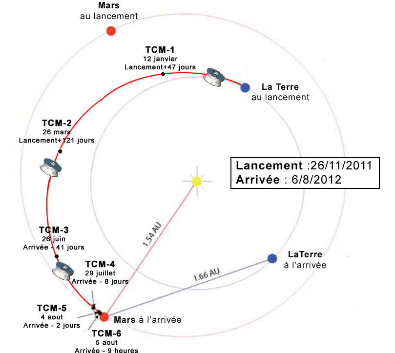 Mars Science Laboratory : Interplanetary Trajectory for Open of Type 1 Launch Period (Nov 25, 2011) french version